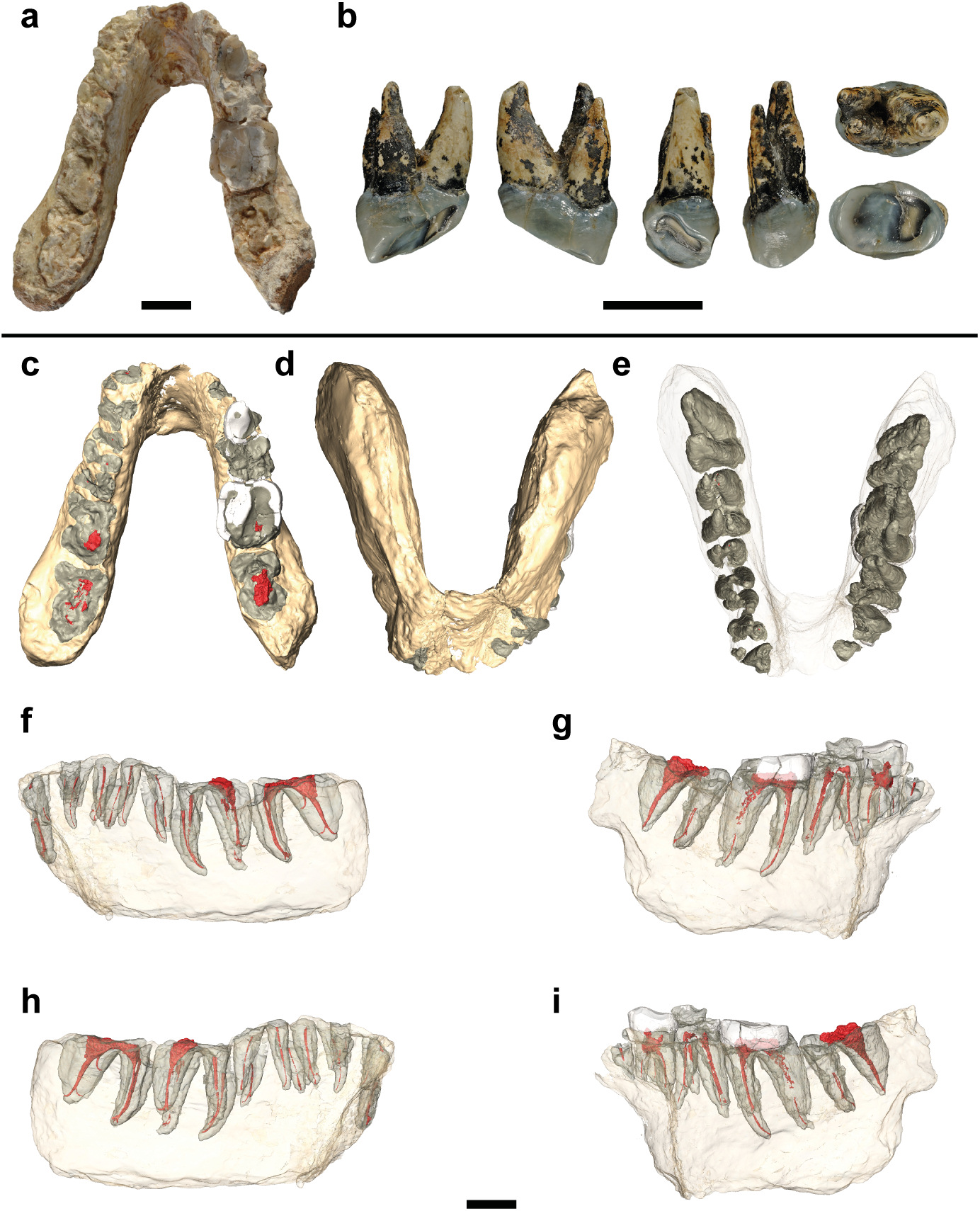 Lower jaw (= holotype) and tooth (left premolar P4) of Graecopithecus freybergi